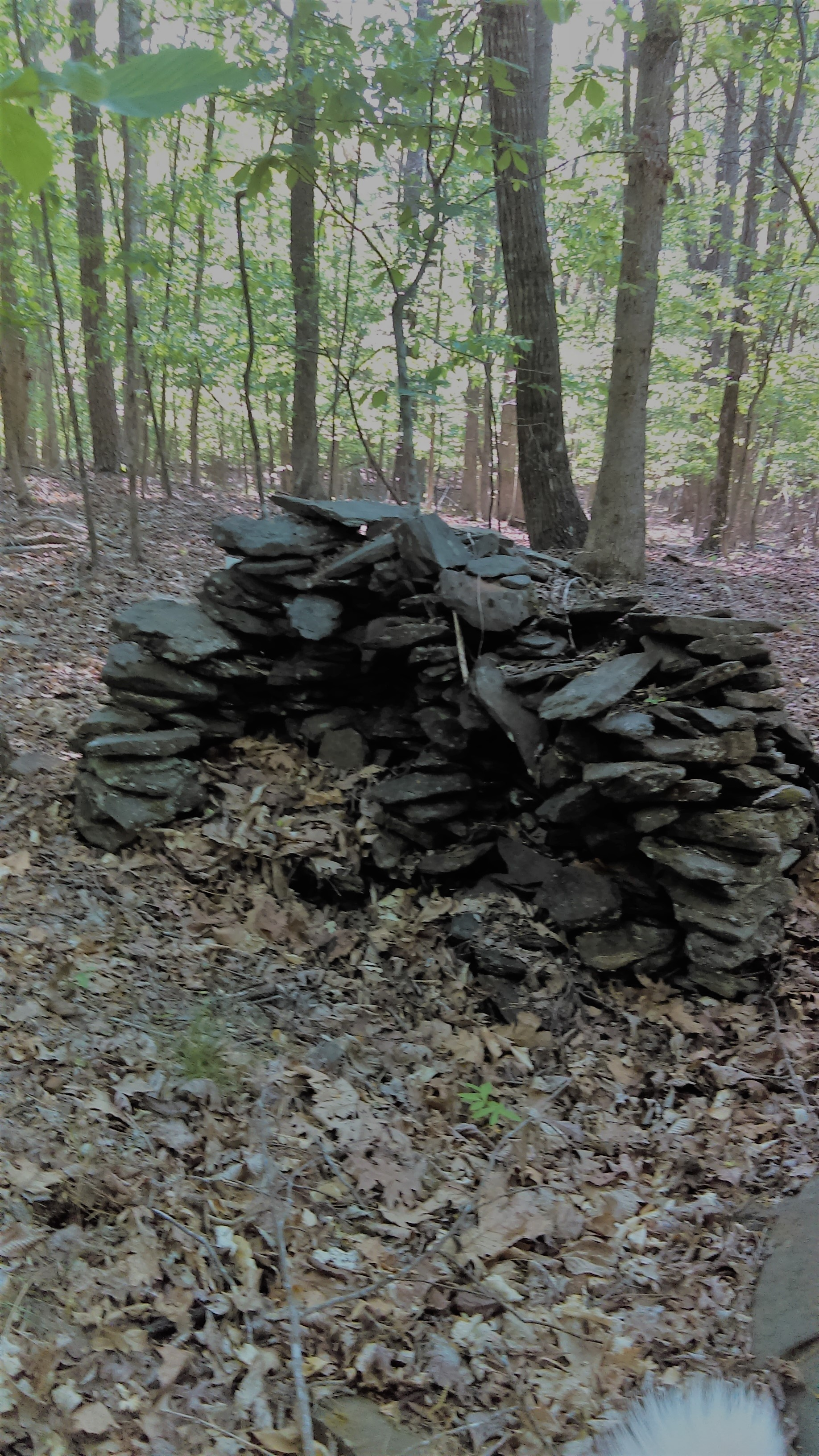 Little Mulberry Indian Mound